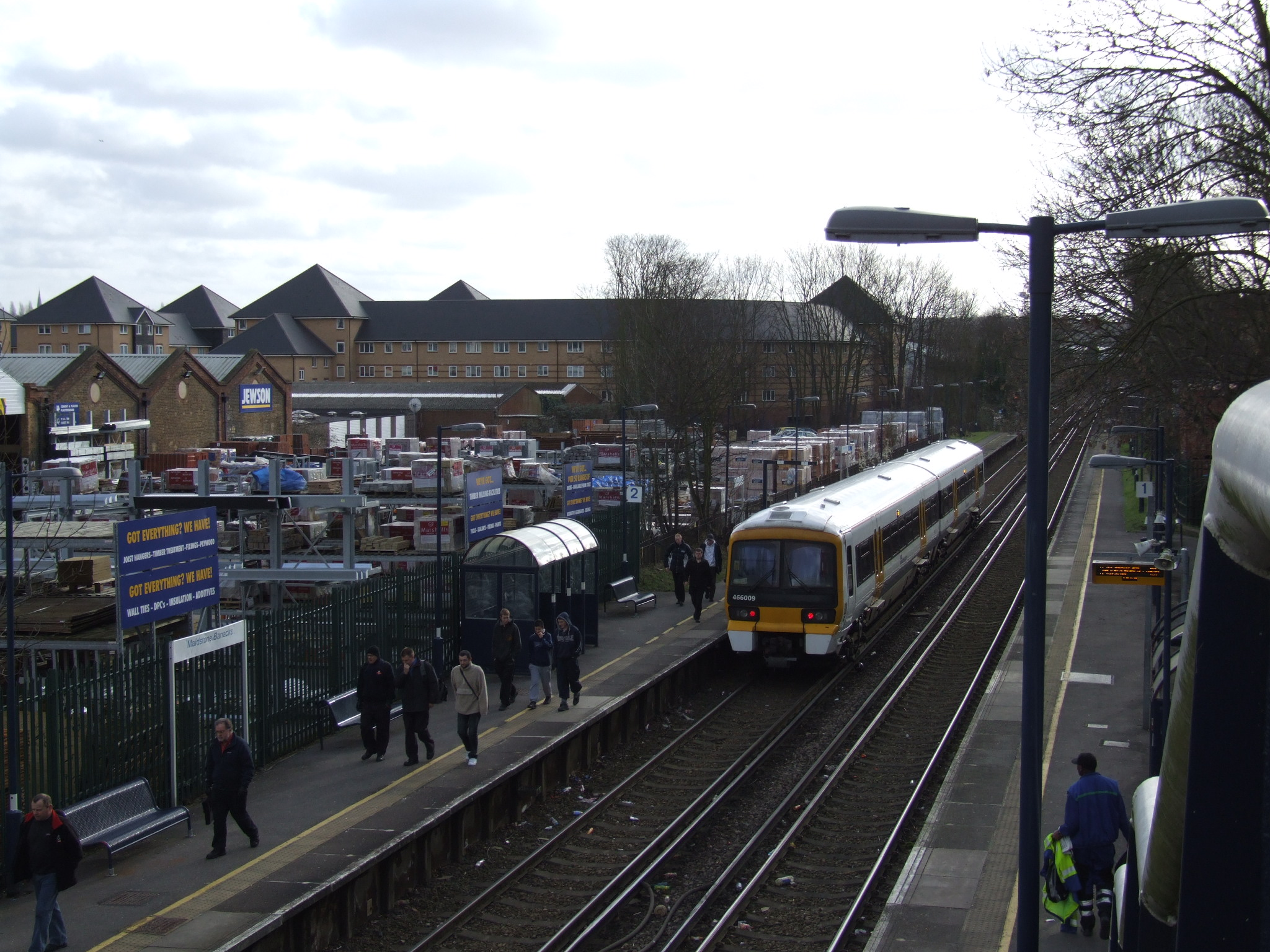 Maidstone Barracks railway station on the Medway Valley Line from Buckland Hill. 466009 from Strood to Maidstone West in station.